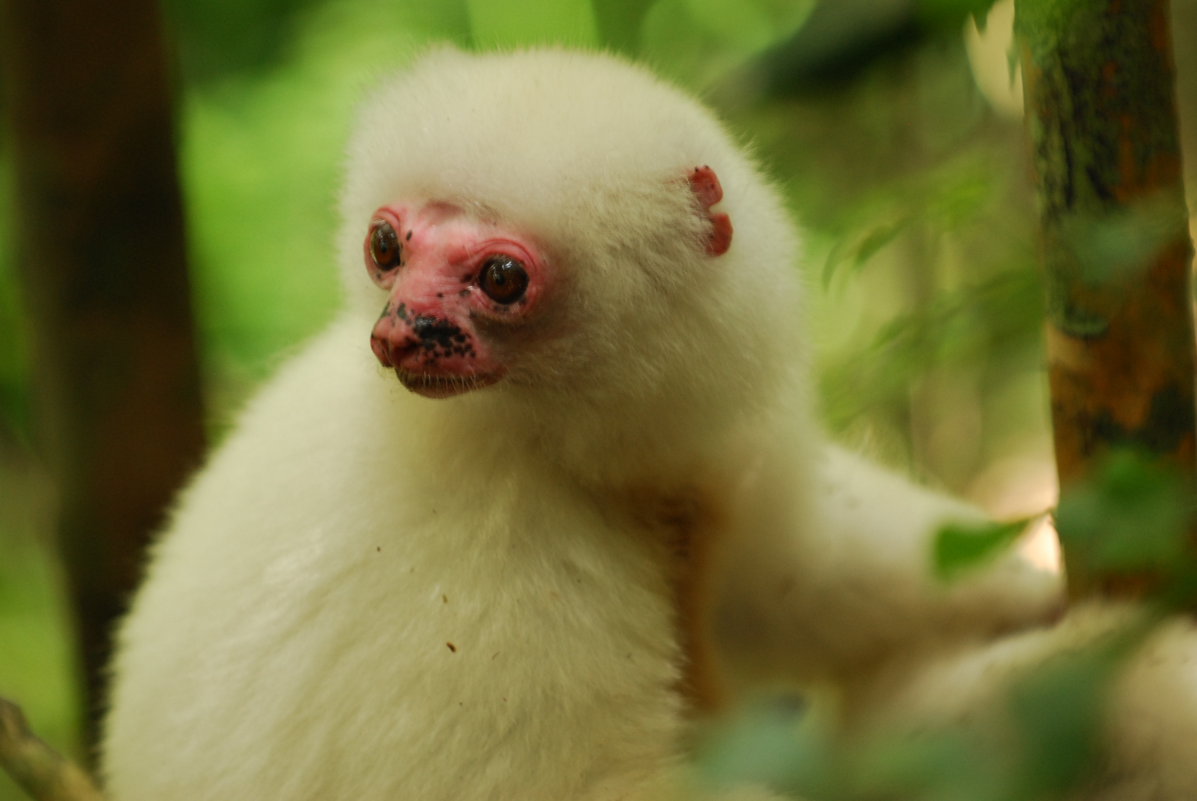 Photo of wild silky sifaka taken by myself in Marojejy National Park, Madagascar